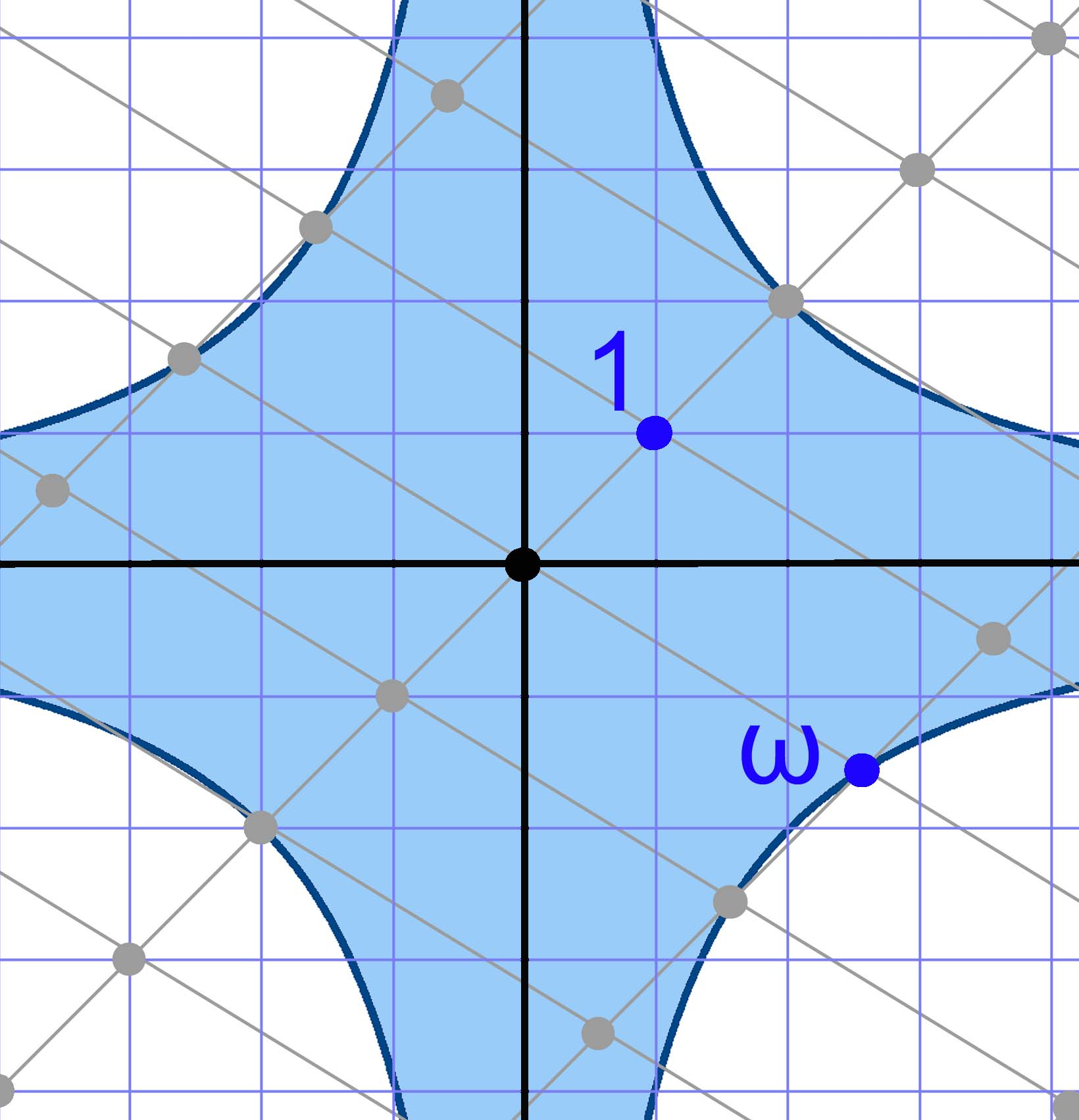 Ideal class group : theorem about the fact that de group is finite. Case illustrated is a totally real number field. The goal is to illustrate the choice of norm.